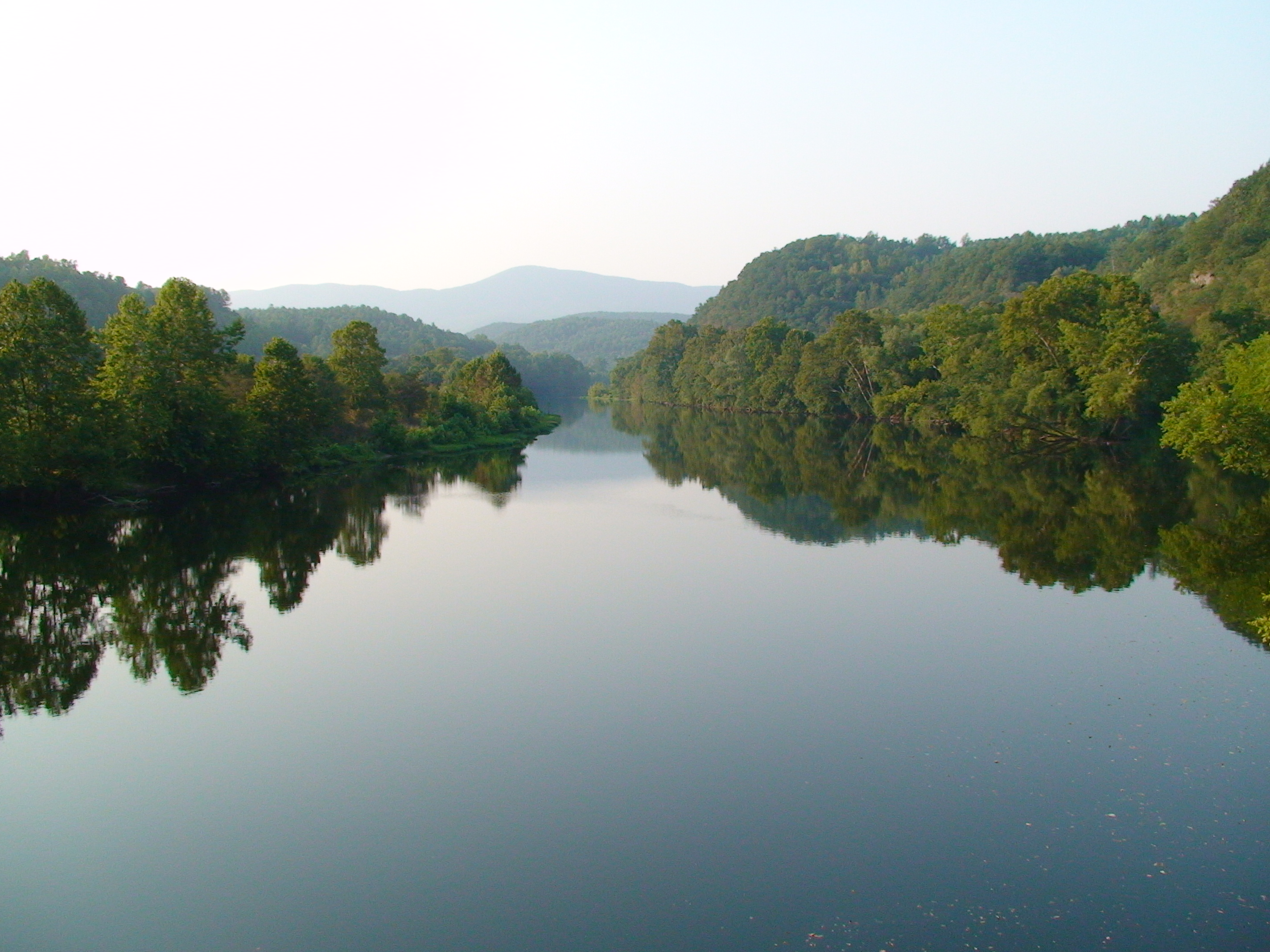 james river watergap appalachian mountains virginia blue ridge parkway